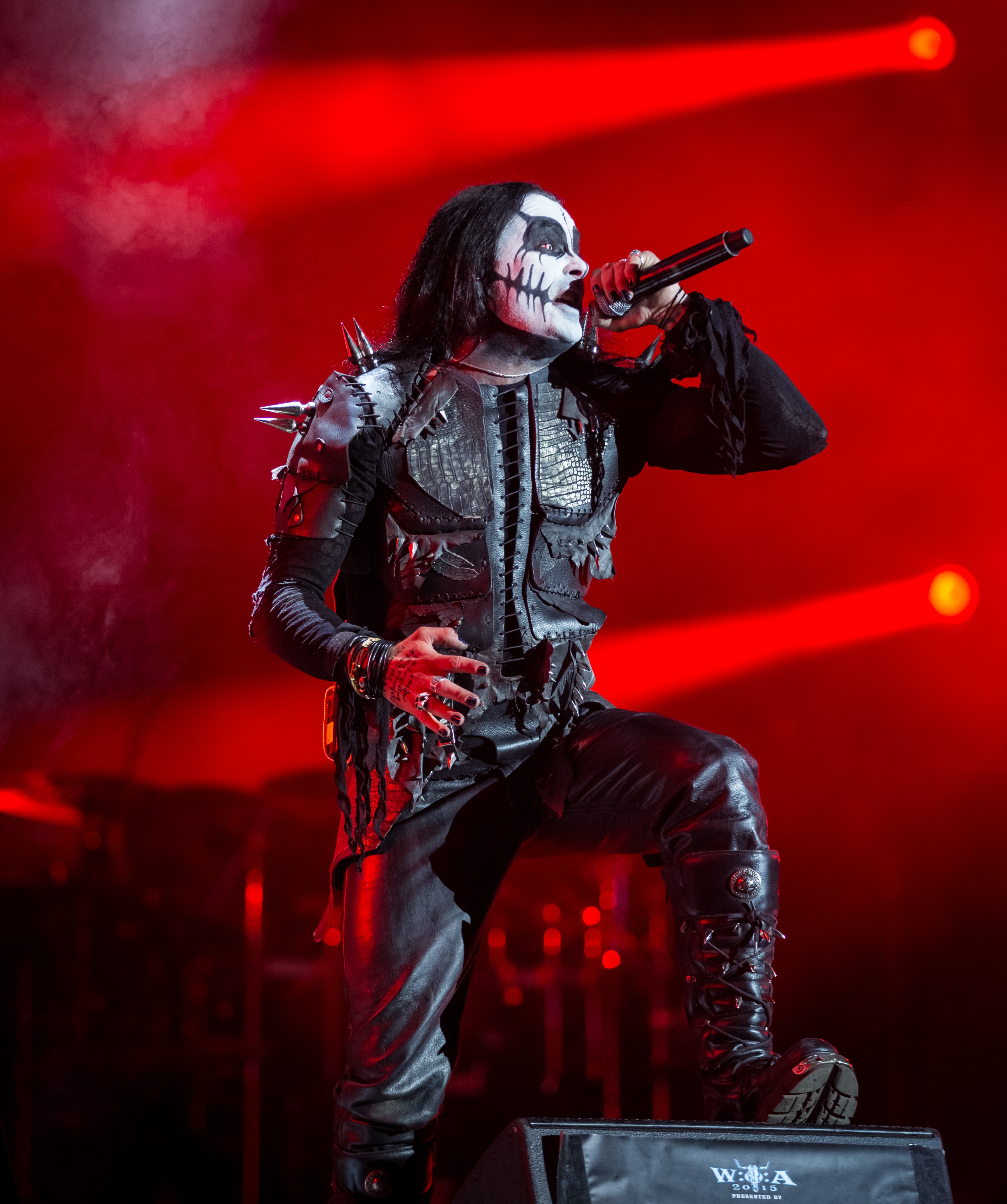 Cradle of Filth - Wacken Open Air 2015